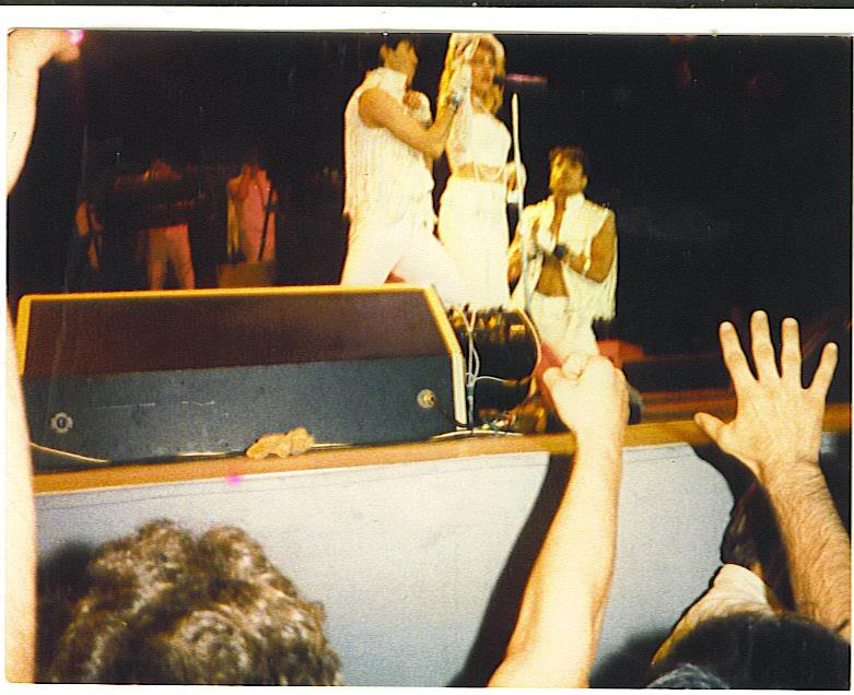 Picture taken by owner on 1985.